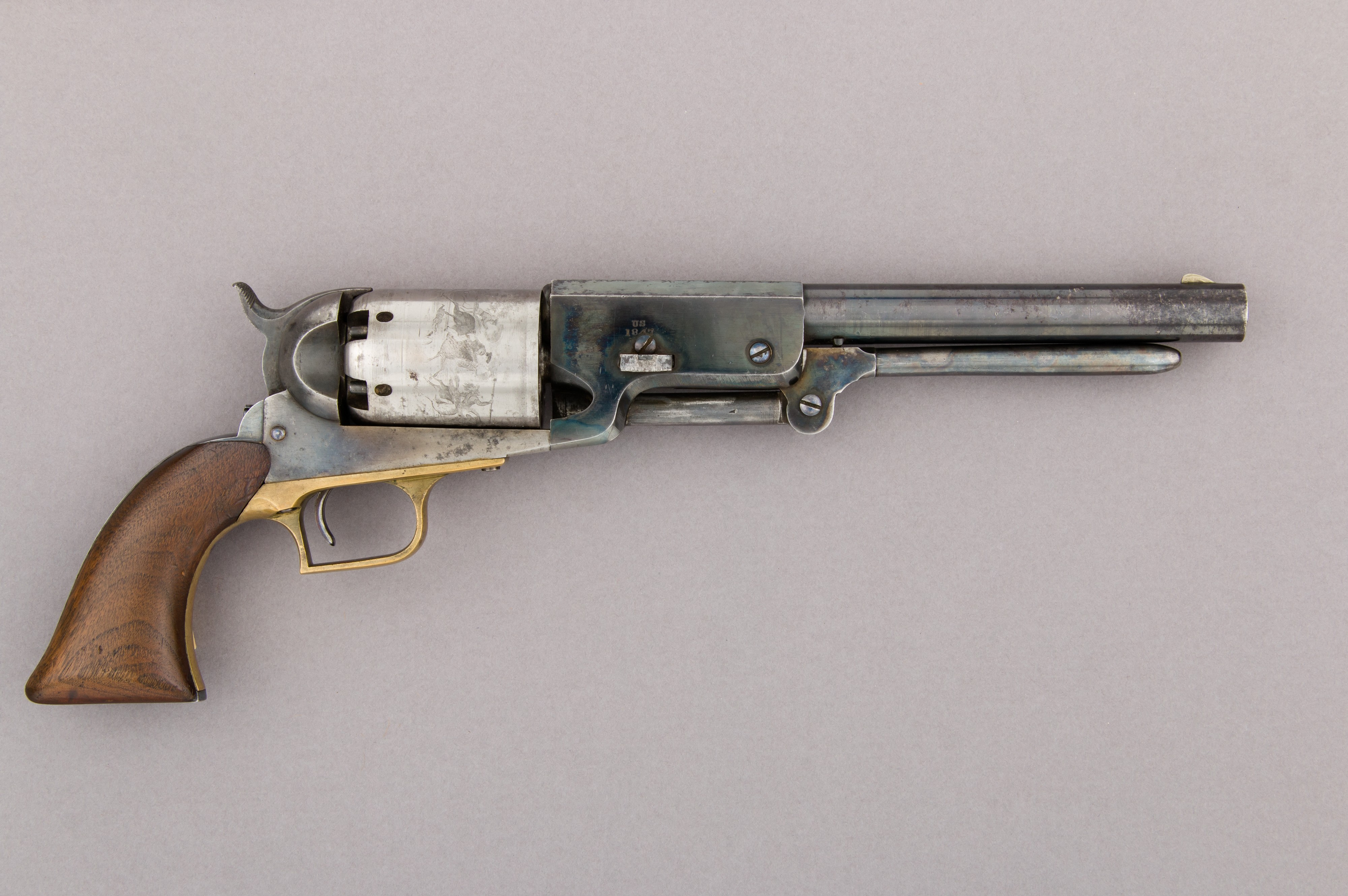 American, Whitneyville, Connecticut; Percussion revolver; Firearms-Pistols-Revolvers